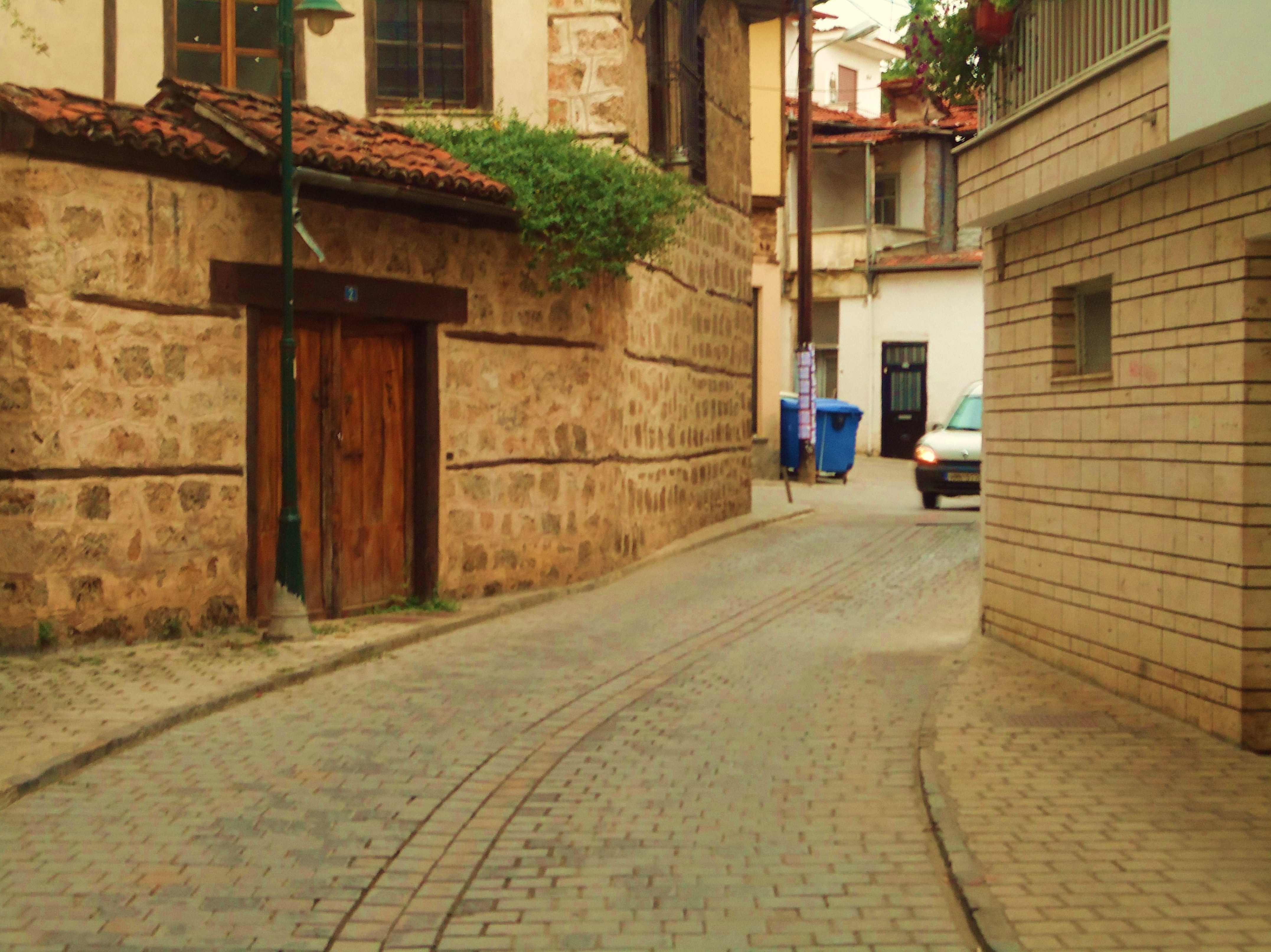 traditional neighbourhood in naousa